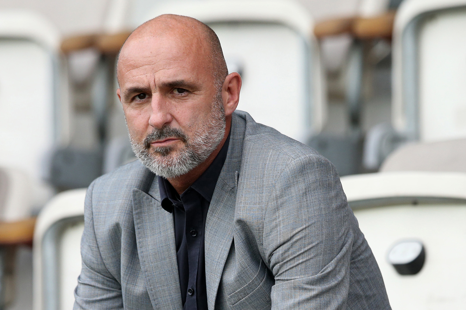 Polish coach, Michal Probierz photo at the football match.